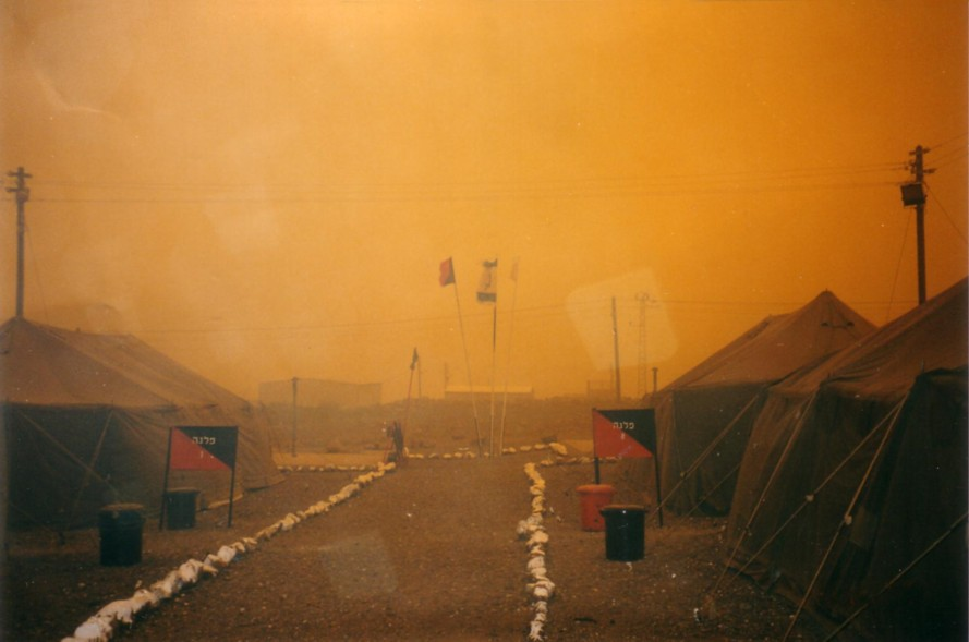 Haze in a military base, Golan Heights